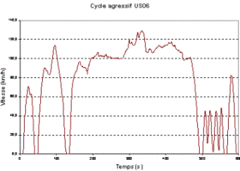 US vehicle certification test cycle SC03 Unit : km/h